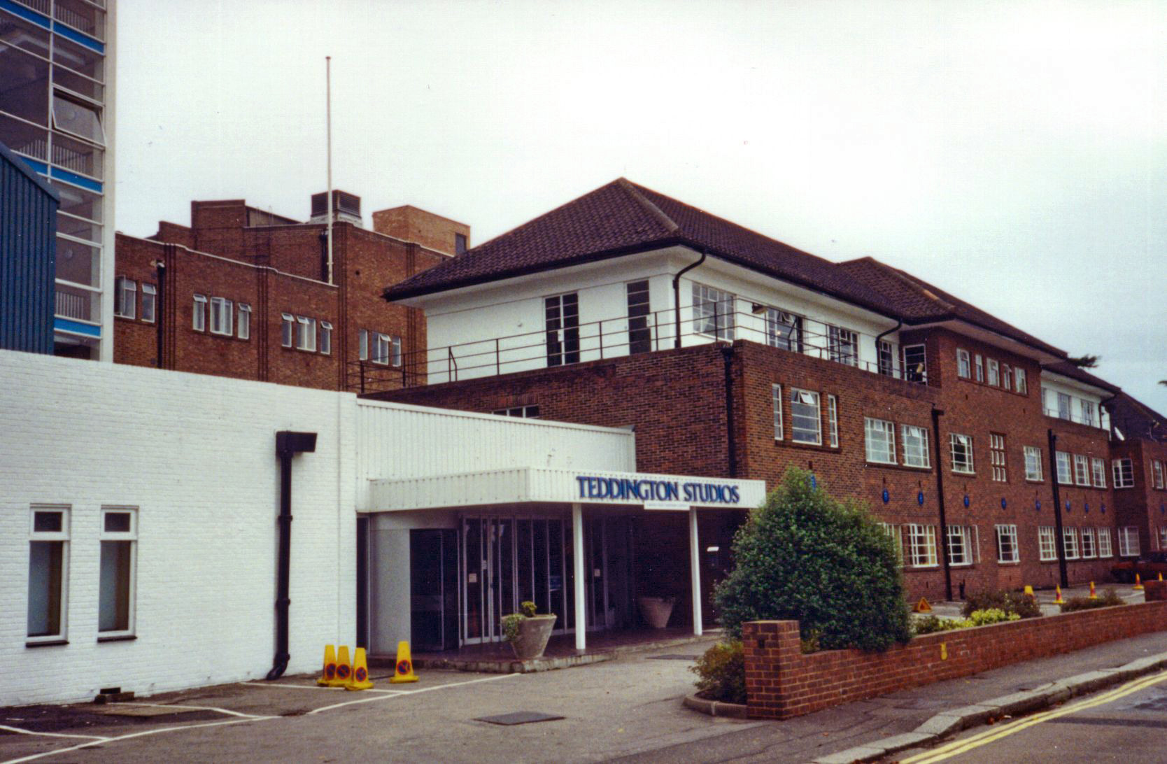 Teddington Studios, Teddington, Surrey. Built as the UK Warner Bros film studios in the 1930s and used by the Associated British Picture Corporation. Later used by ABC Weekend TVand then Thames Television.